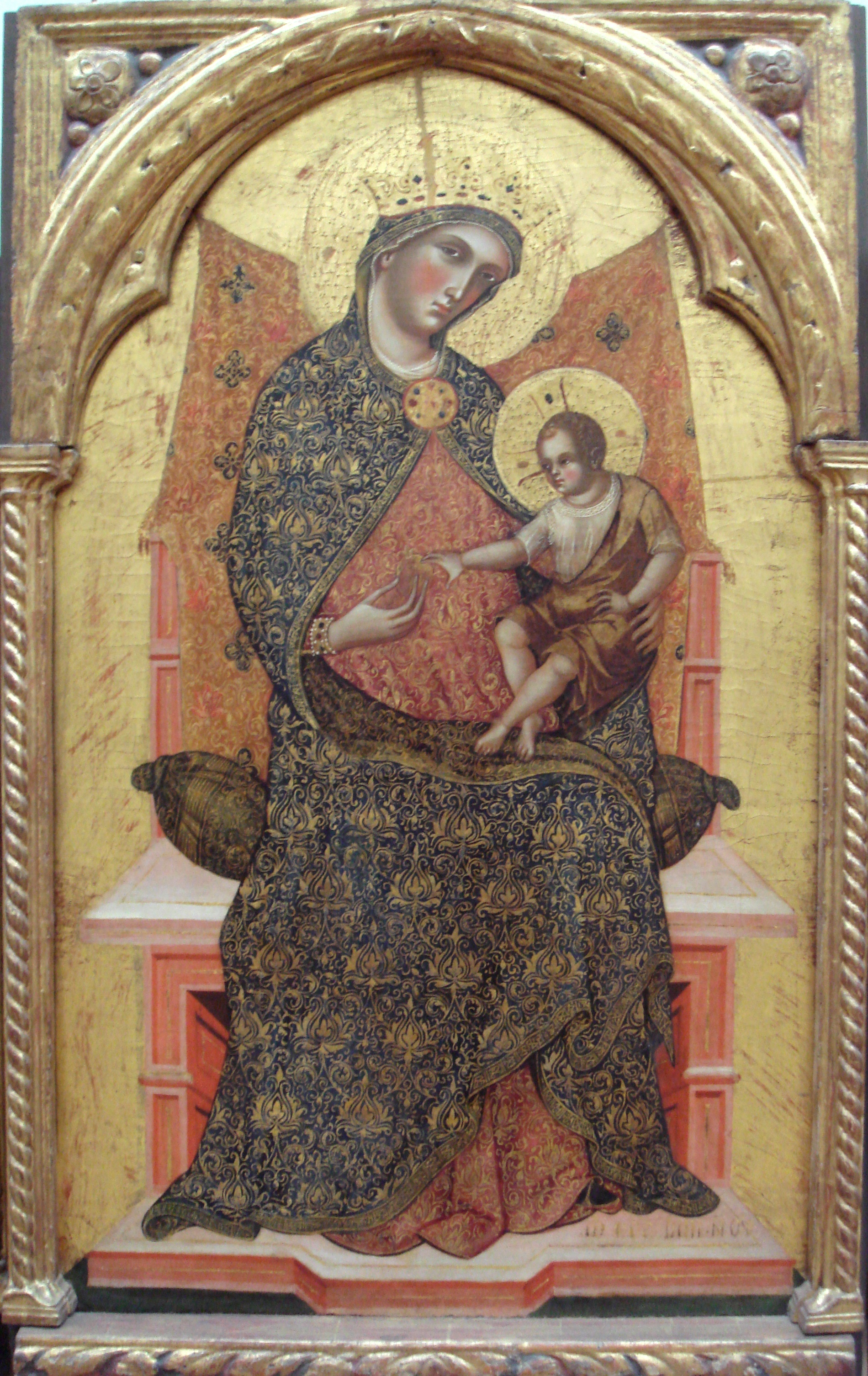 central panel of a Triptych